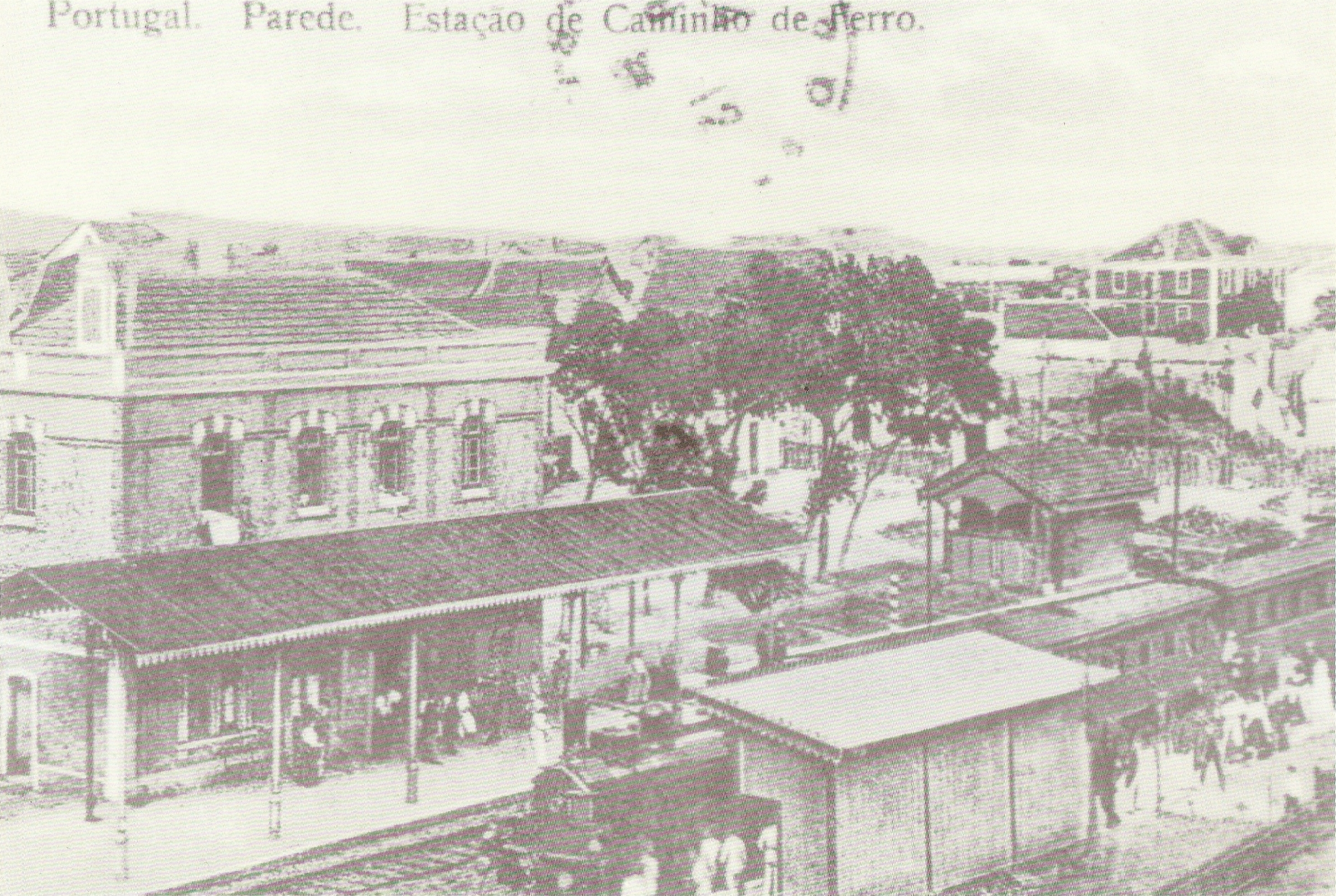 1917 postcard of the Parede Railway Station, in Portugal.